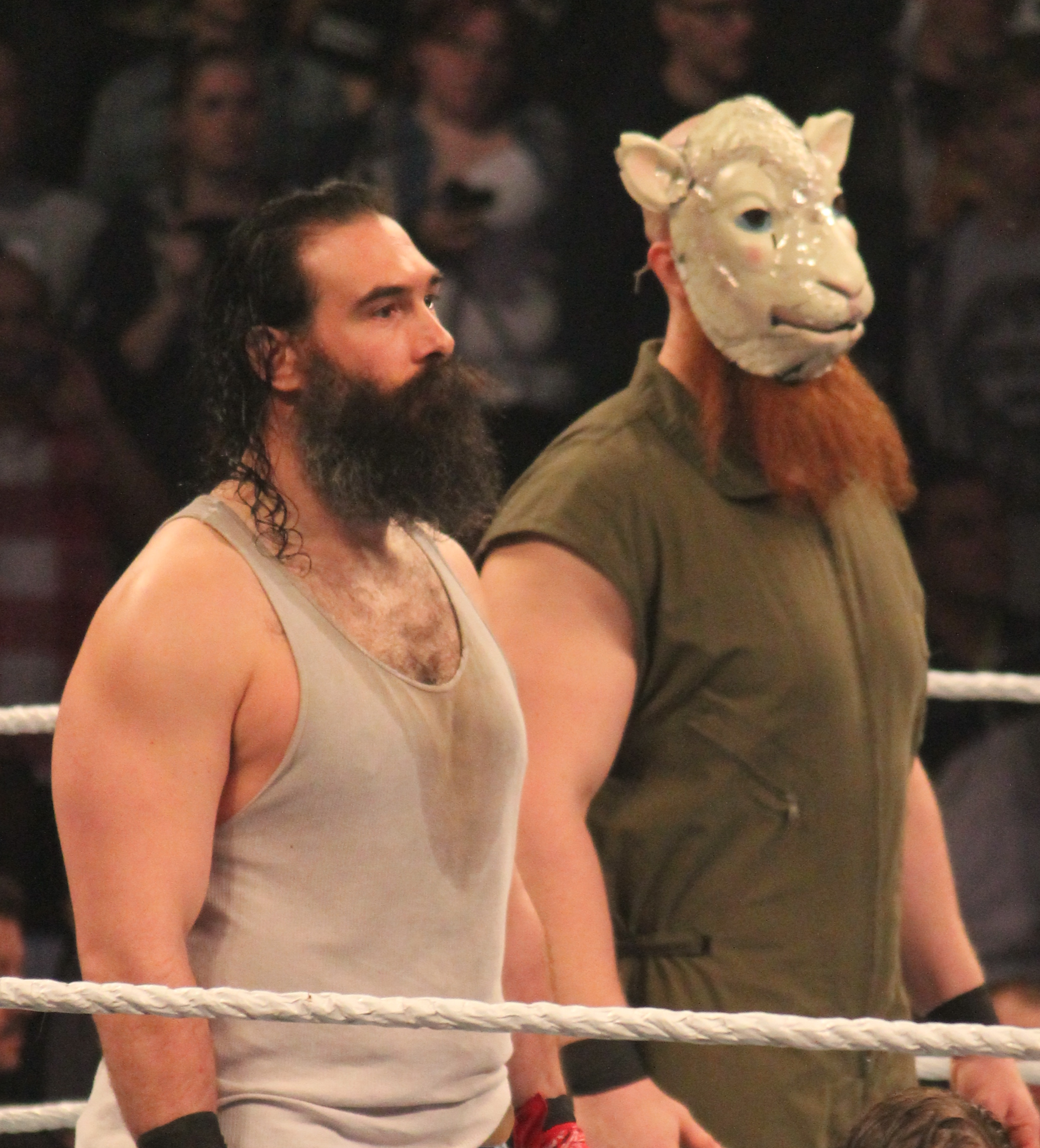 Luke Harper (left) and Erick Rowan (right) on April 7, 2014